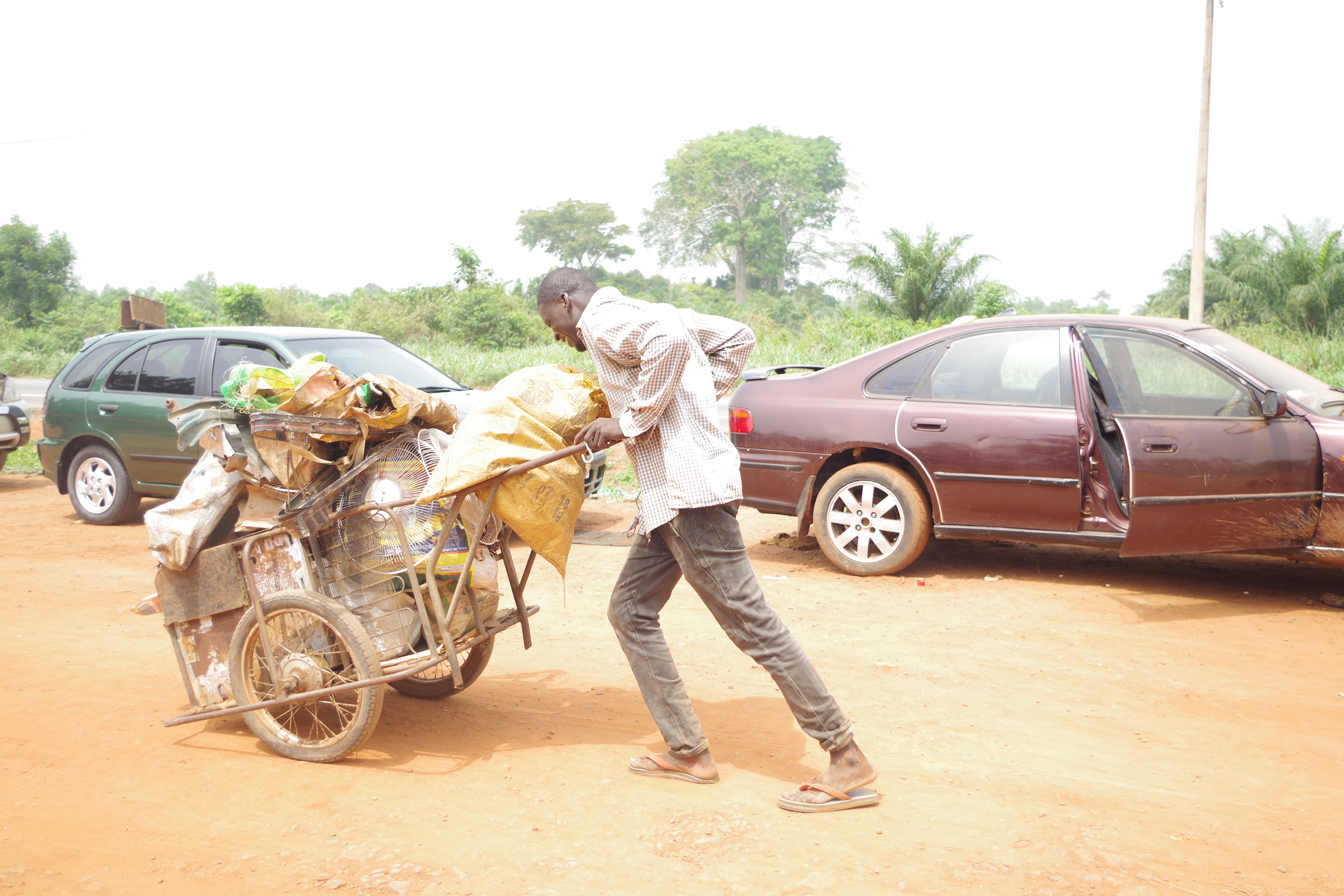 Collectors of used irons commonly known as gankpo gblégblé in the FON local language, who go around households in Benin in order to buy scrap in Benin thanks to a two-wheeled push-pull cart called rickshaw It is an activity that is recording more and more out of school and especially Nigerian immigrants in Benin who earn their living while sanitizing the environment.